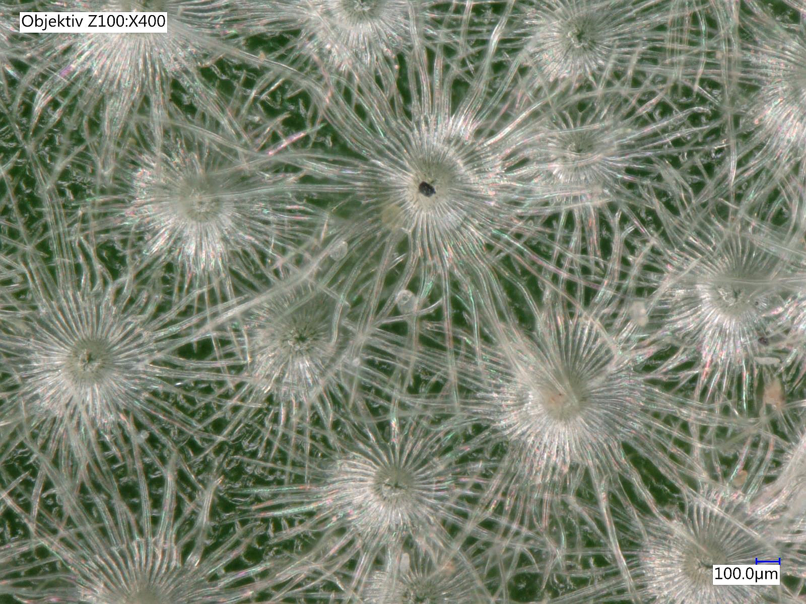 Elaeagnus angustifolia - microscopic image of the leaf underside with trichomes.